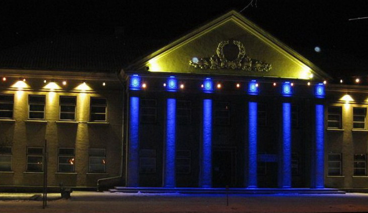 Jonavas library with special light, made by "Mazgas"